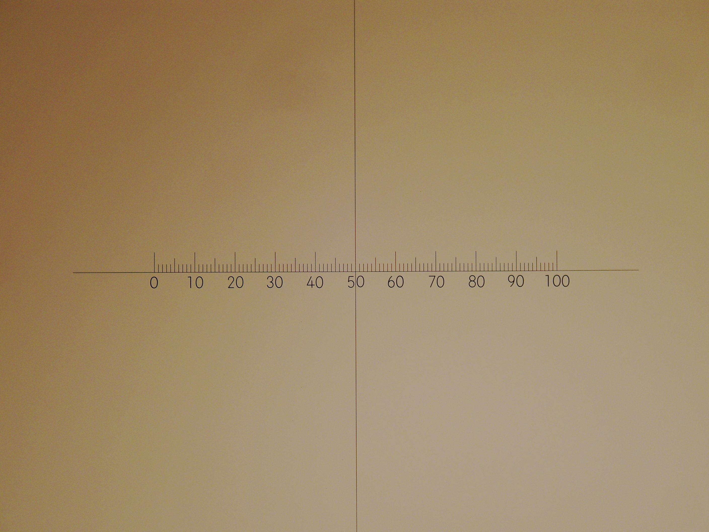 Threads cross.